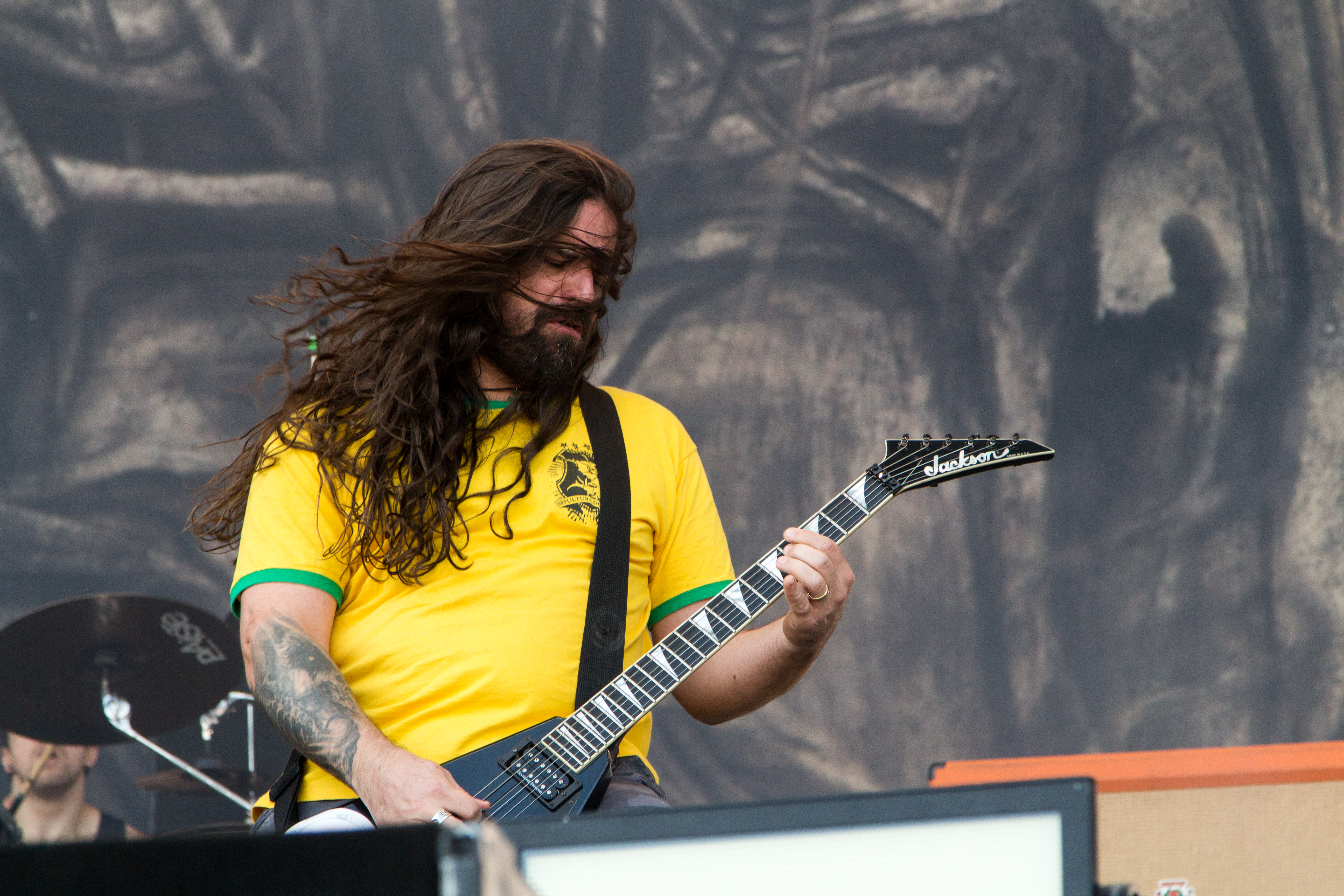 Andreas Kisser from Sepultura at Nova Rock 2014